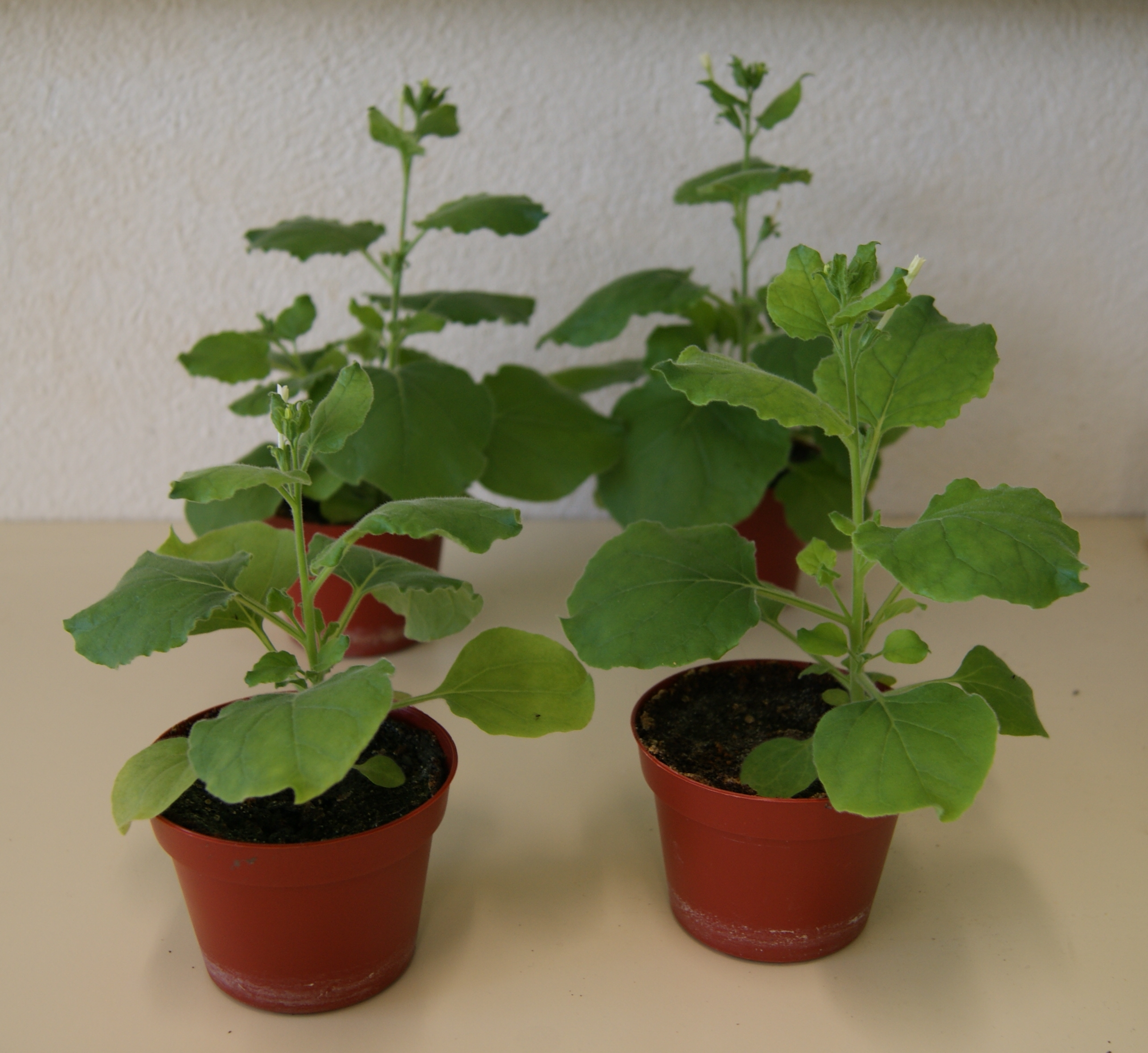 Nicotiana benthamiana plants